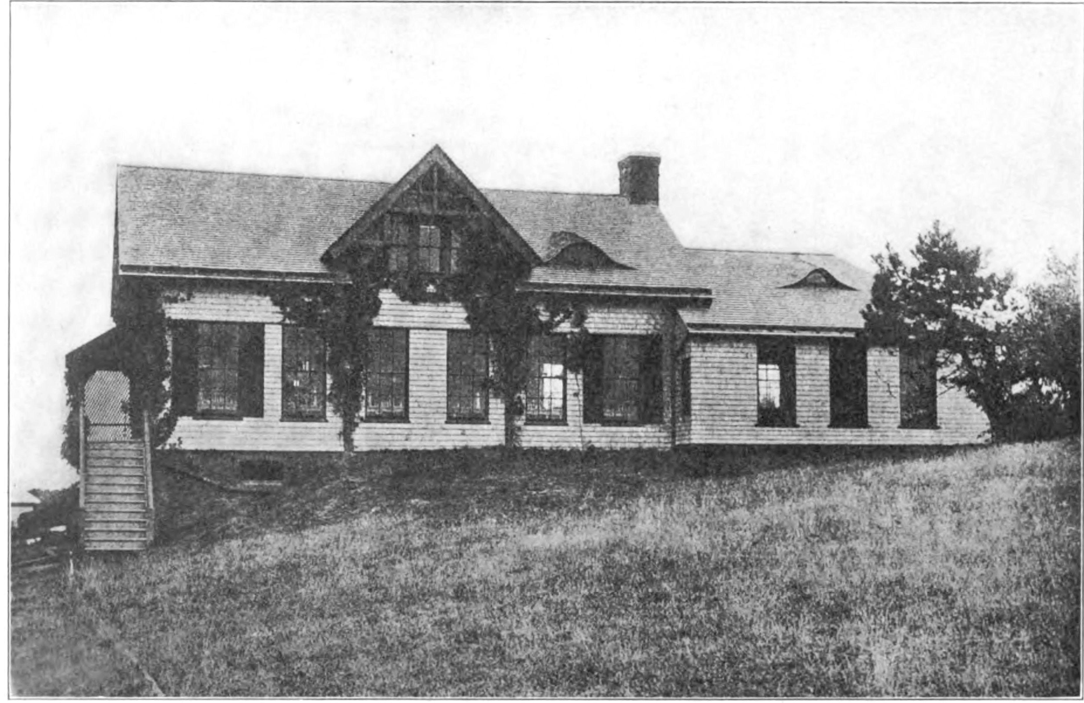 Agassiz laboratory at newport rhode island